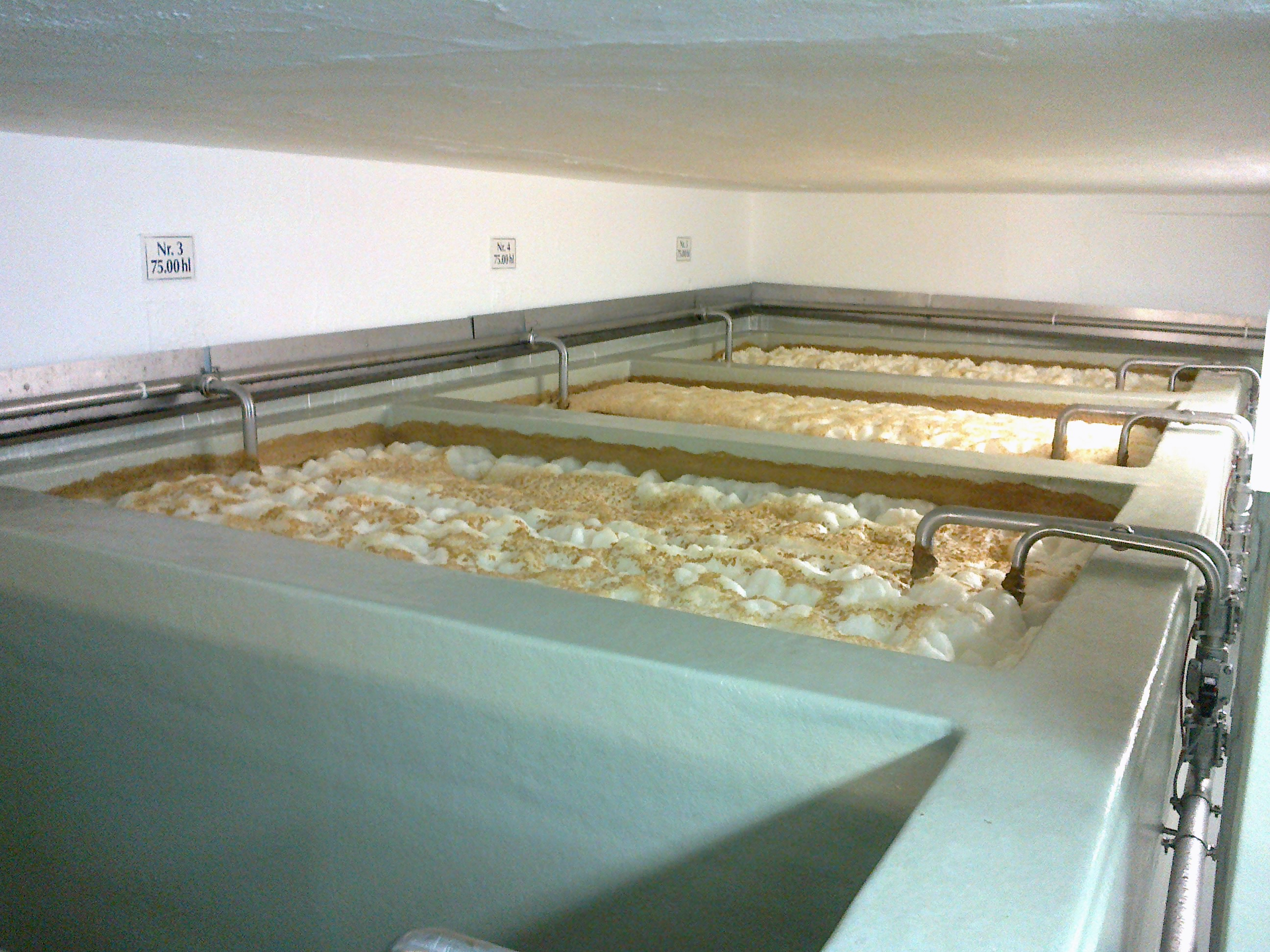 Open beer fermentation tank, internal cooling ; Klosterbrauerei Reutberg